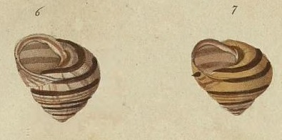 Cepaea vindobonensis (Pfeiffer, 1828), Helicidae, Gastropoda, Mollusca, orig. figures by Pfeiffer (1828: pl.4, figs.6,7)